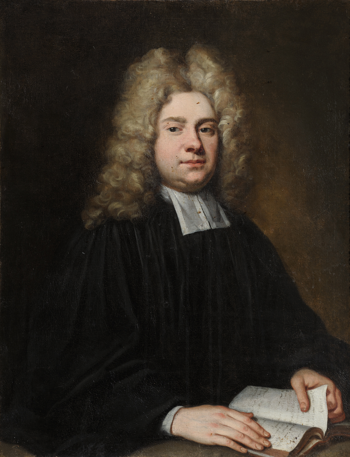 Painting held at Christ's College, Cambridge